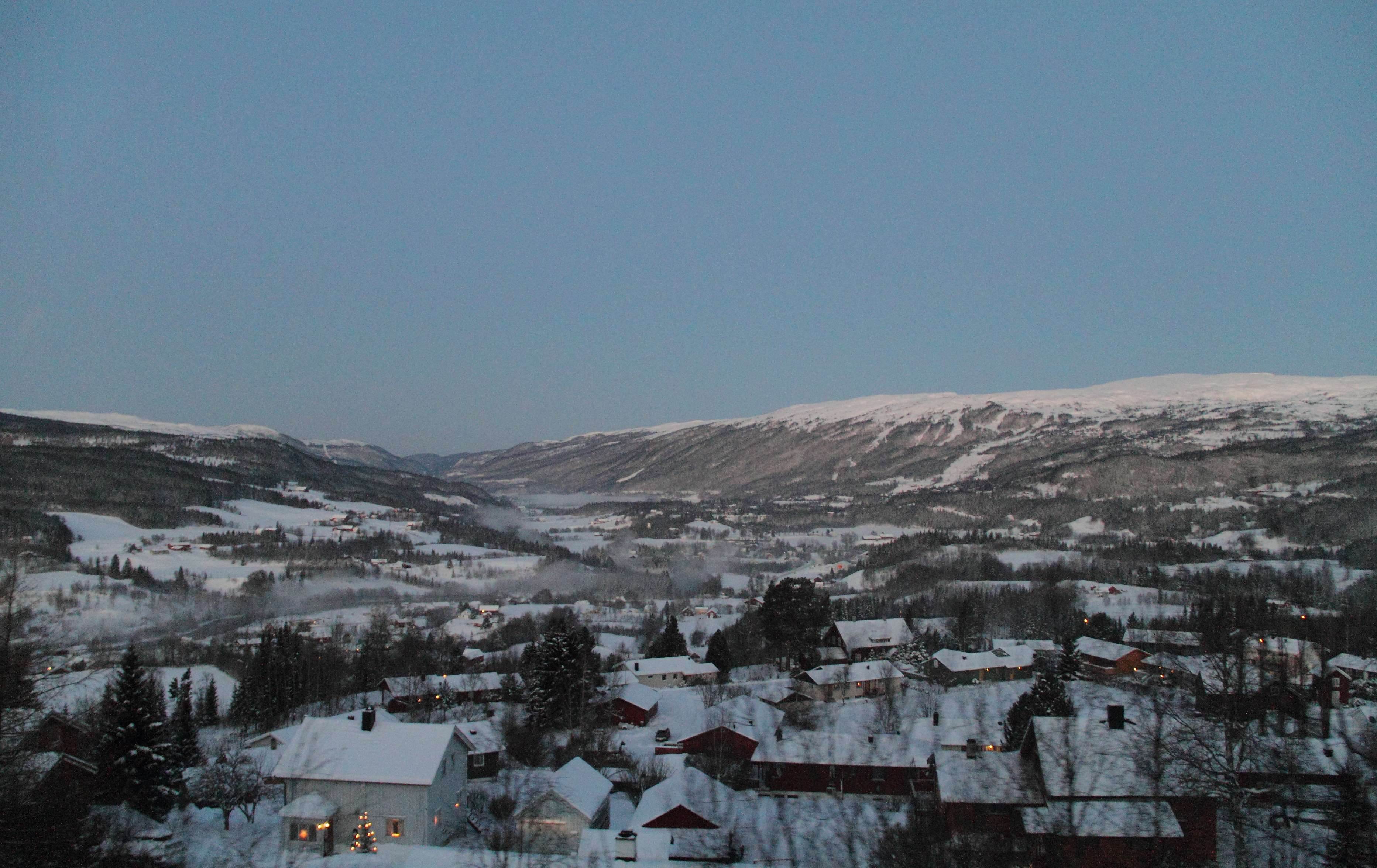 Meråker and Meråkerdalen on a cold January morning.